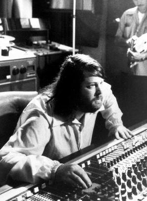 1976 promotional photo of Brian Wilson behind a mixing board. Cropped from File:Brian Wilson 1976.png